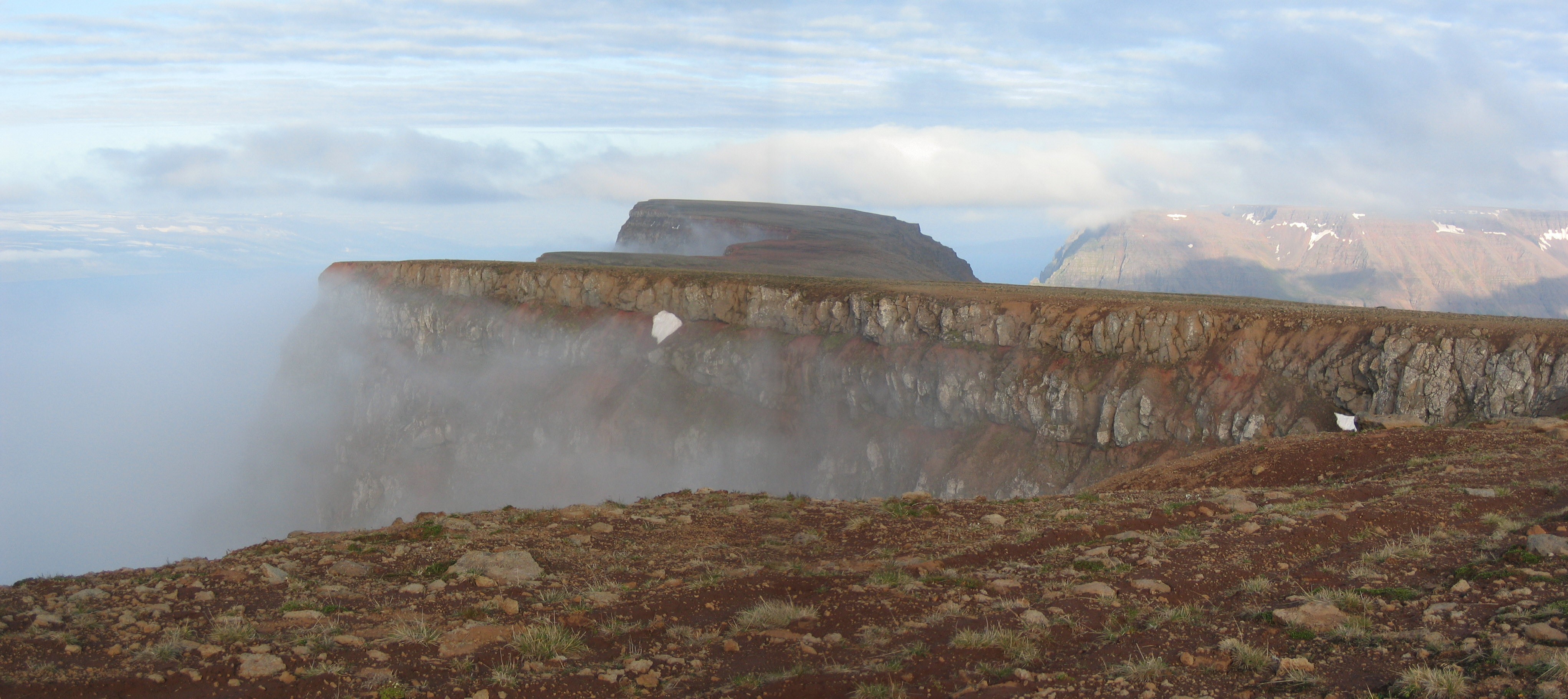 Bolungarvik, Iceland On the top of Bolafjall photo by Salvor Gissurardottir July 2006 two photos stiched together